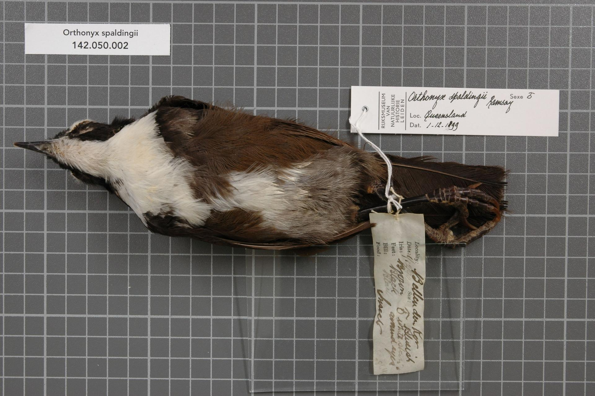 Orthonyx spaldingii Ramsay, 1868